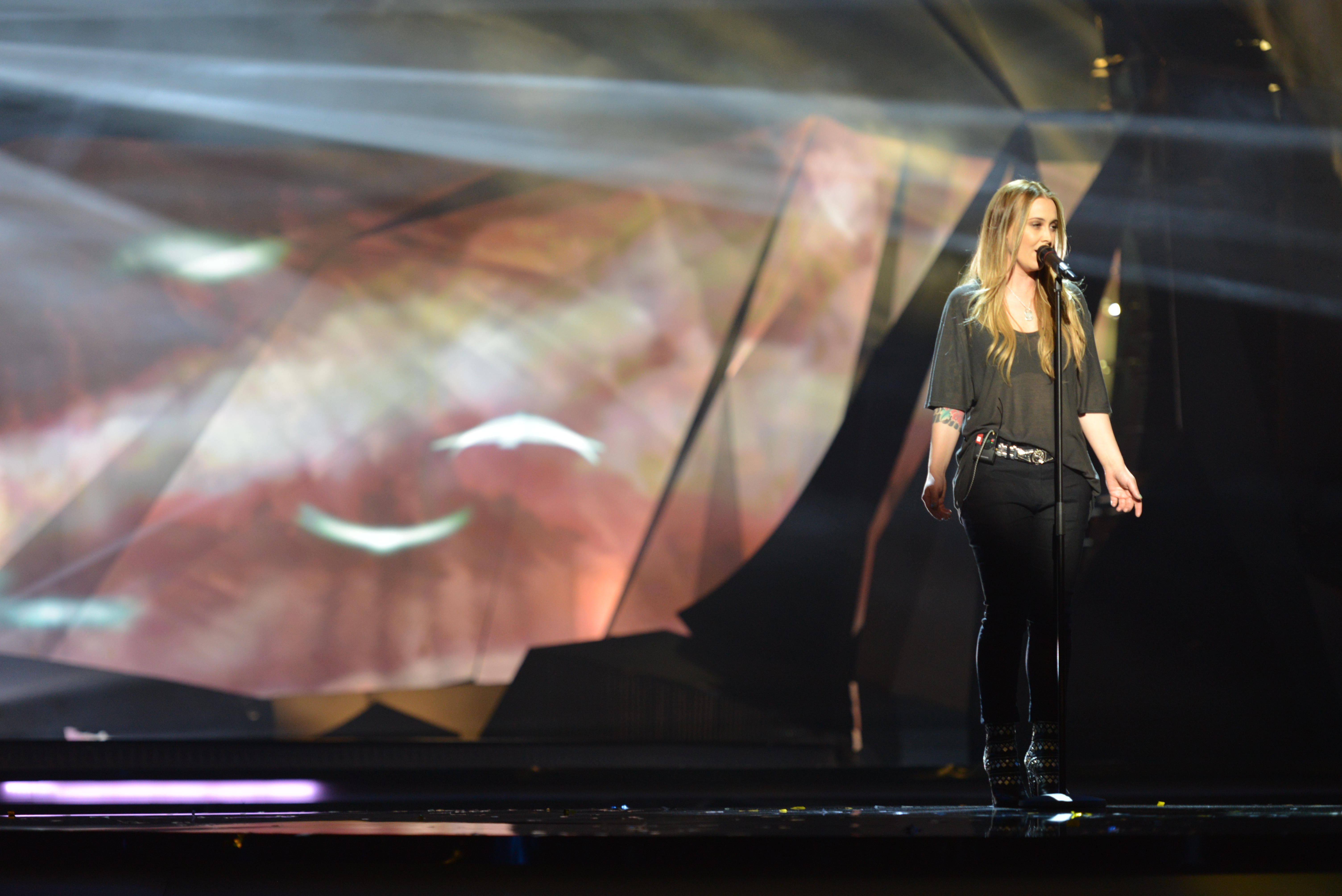 Anouk representing Netherlands with the song "Birds" during the first dress rehearsal of the first semi final of the Eurovision Song Contest 2013 in Malmö. (Help translate this text)